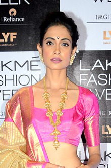 Sarah-Jane Dias on Lakme Fashion Week 2016 red carpet – Day 2